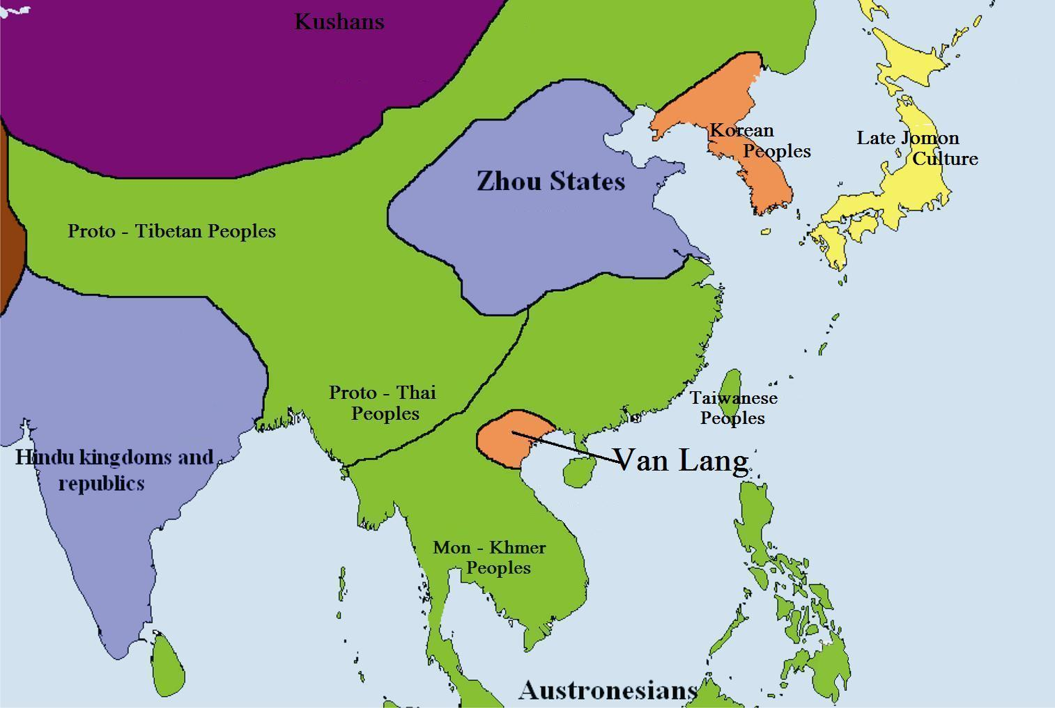 Van Lang 500 BCE.jpg